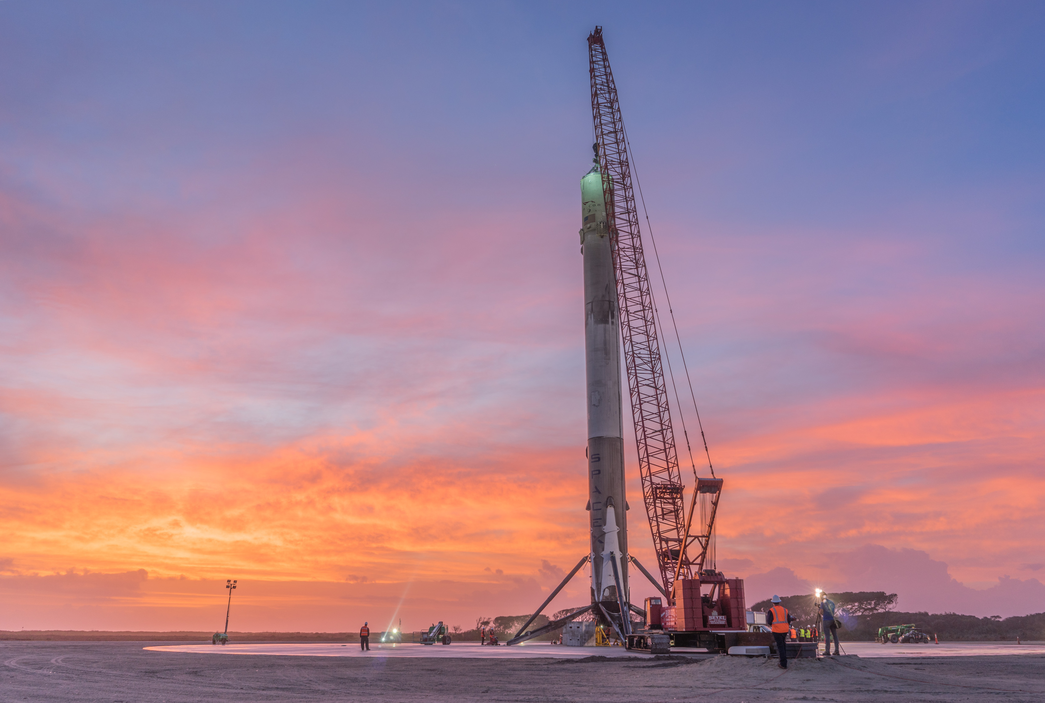 First stage of a Falcon 9 Full Thrust rocket on Landing Zone 1 (LZ-1). The stage landed successfully after launching 11 Orbcomm OG-2 telecommunication satellites to Low Earth orbit.